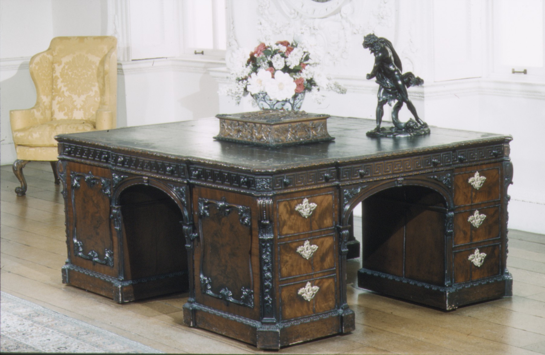 British; Library table; Woodwork-Furniture